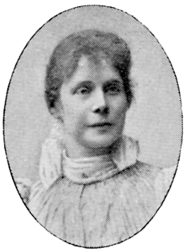 Image scanned from the book "Svenskt Porträttgalleri XX - Arkitekter, Bildhuggare, Målare m.fl. " ("Swedish Portrait Gallery XX - Architects, Sculptors, Painters, ") published 1901